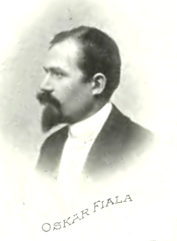 Portrait of Oskar Fiala (1860-1918), Czech painter